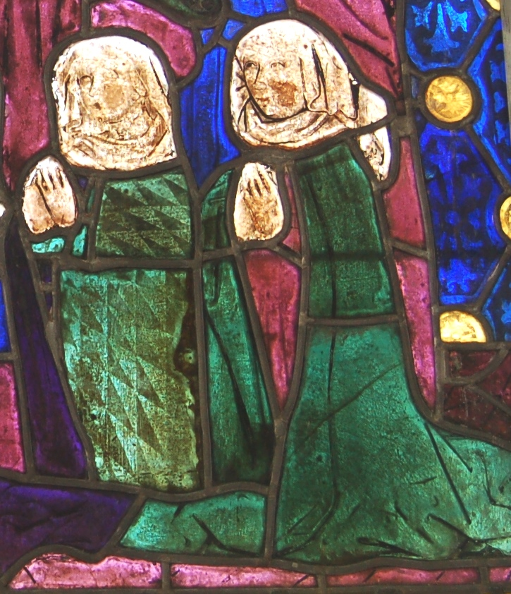 Elisabeth and Getrud of Felben at the gotic window in St. Niclas in Weitau near St. Johann in Tirol